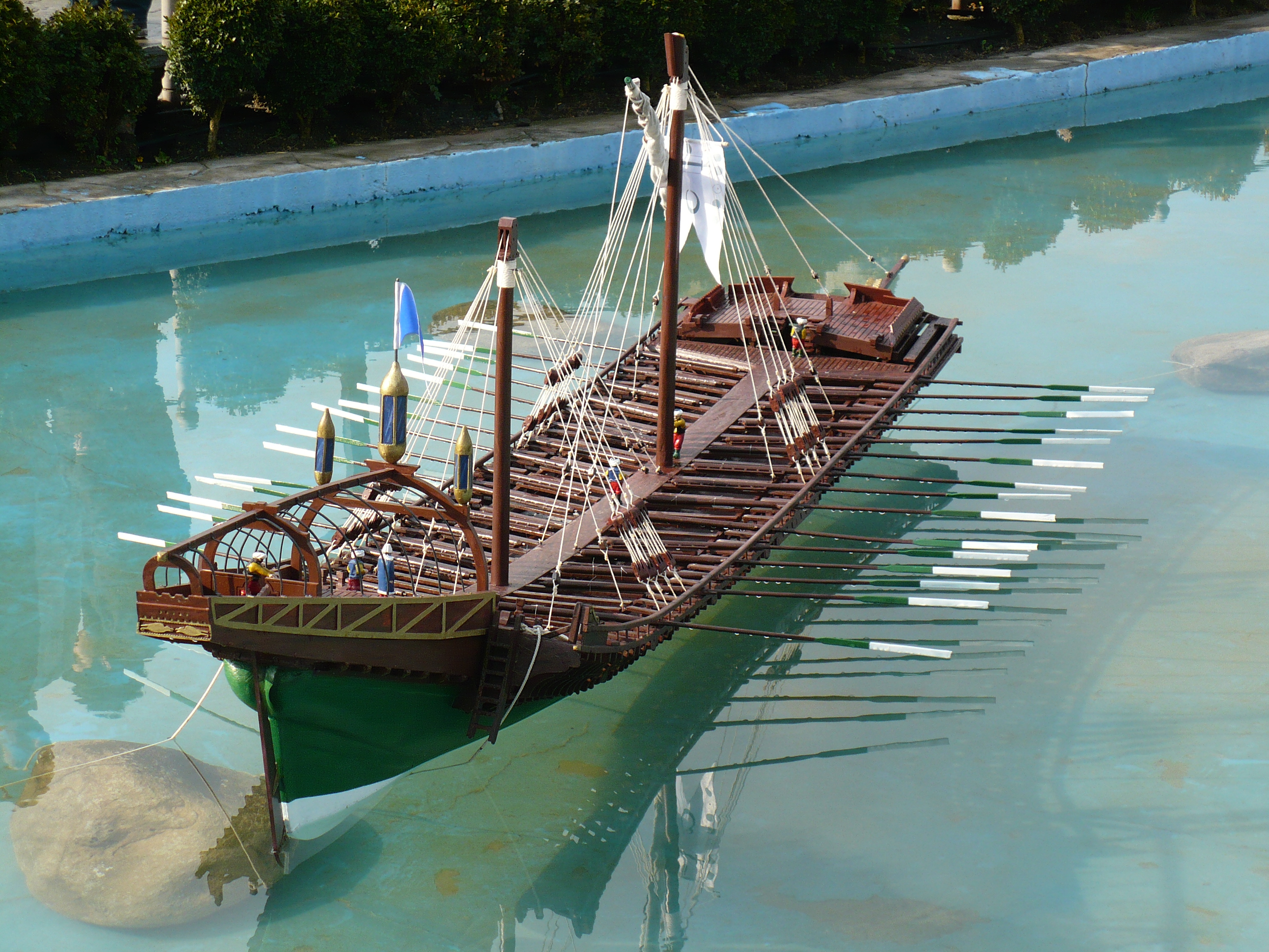 The scale model of the Ottoman galley of the type known as "Bastarda" in 1657